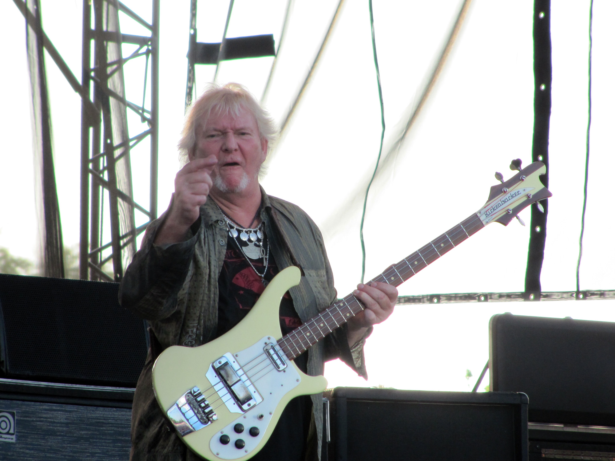 Yes concert in Cincinnati, Ohio